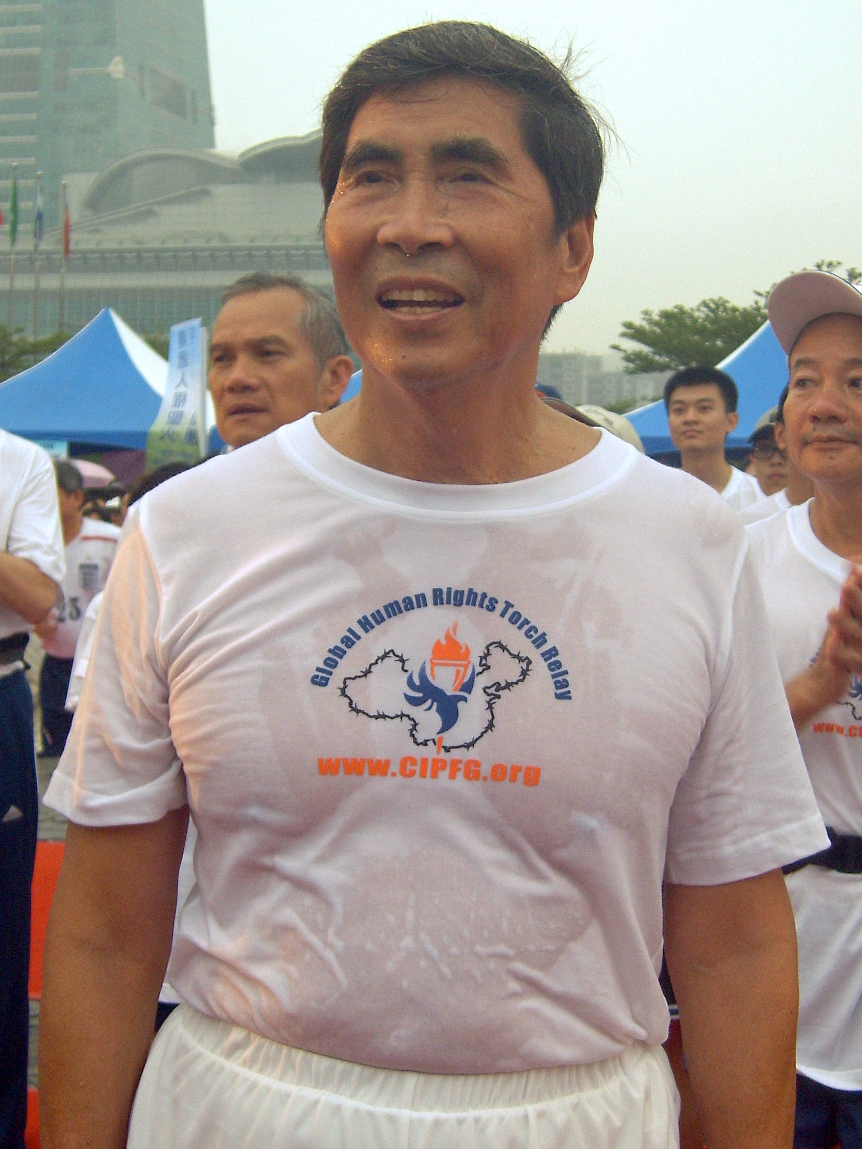 2008 Global Human Rights Torch Relay in Taiwan: Taipei City Stage - Trong-rong Tsai, Legislator of DPP.